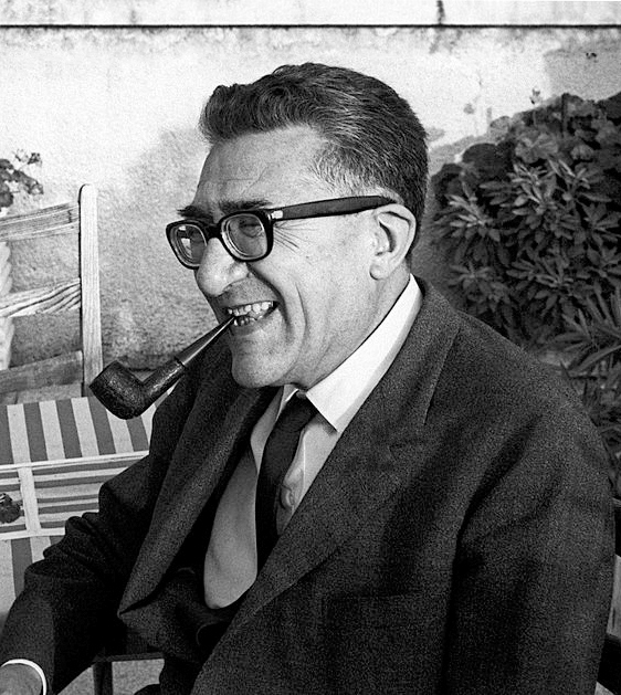 Italian politician Riccardo Lombardi laughs and smokes tobacco with his English pipe during an interview given on the terrace of his house; former Minister of the Transport in the first De Gasperi Government, Lombardi four years earlier was the architect of the nationalization of the electric energy. Rome (Italy), November 1966.